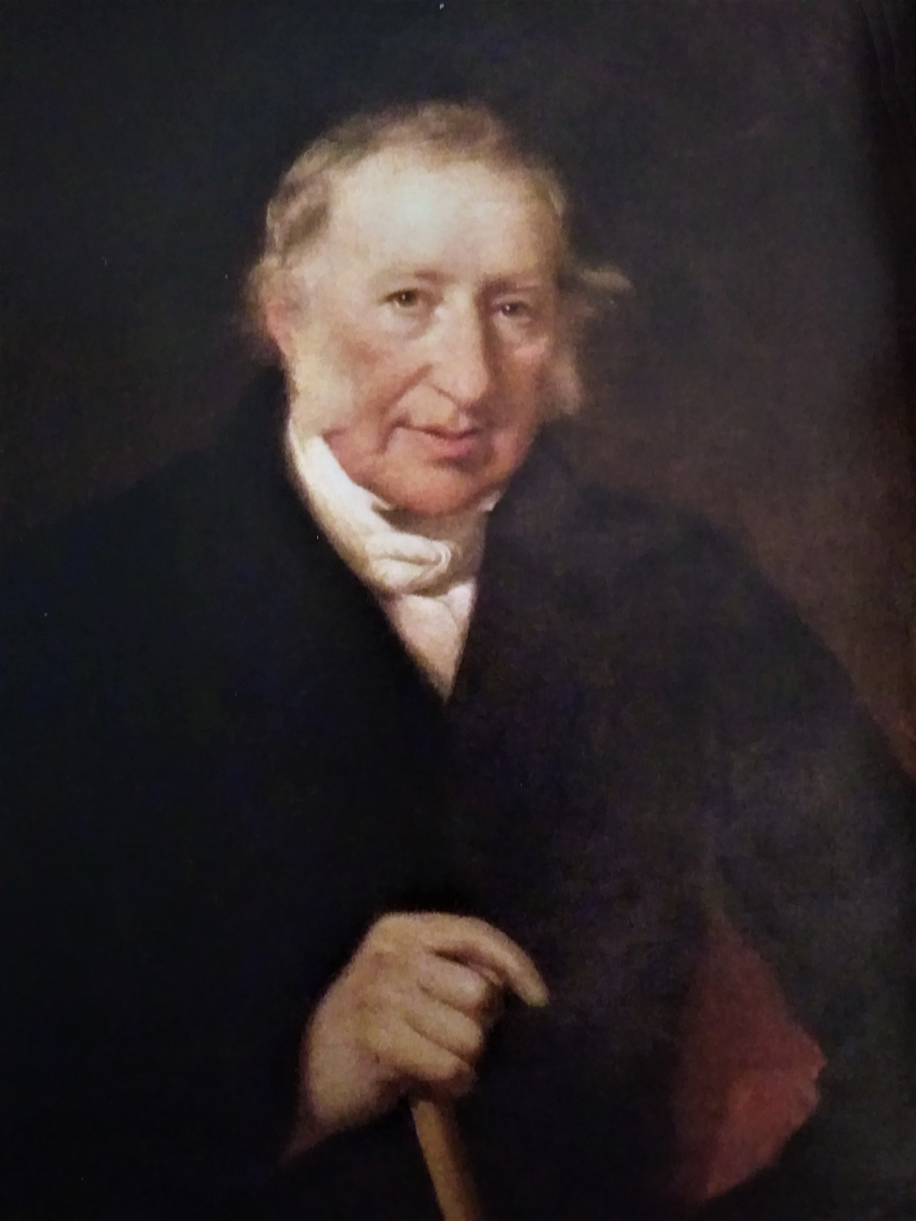 An oil painting of Charles Robin by an unknown artist courtesy of Mrs Emma Lemprière-Johnston, La Dame de Rosel, owner of Rosel Manor, Jersey, where it hangs.